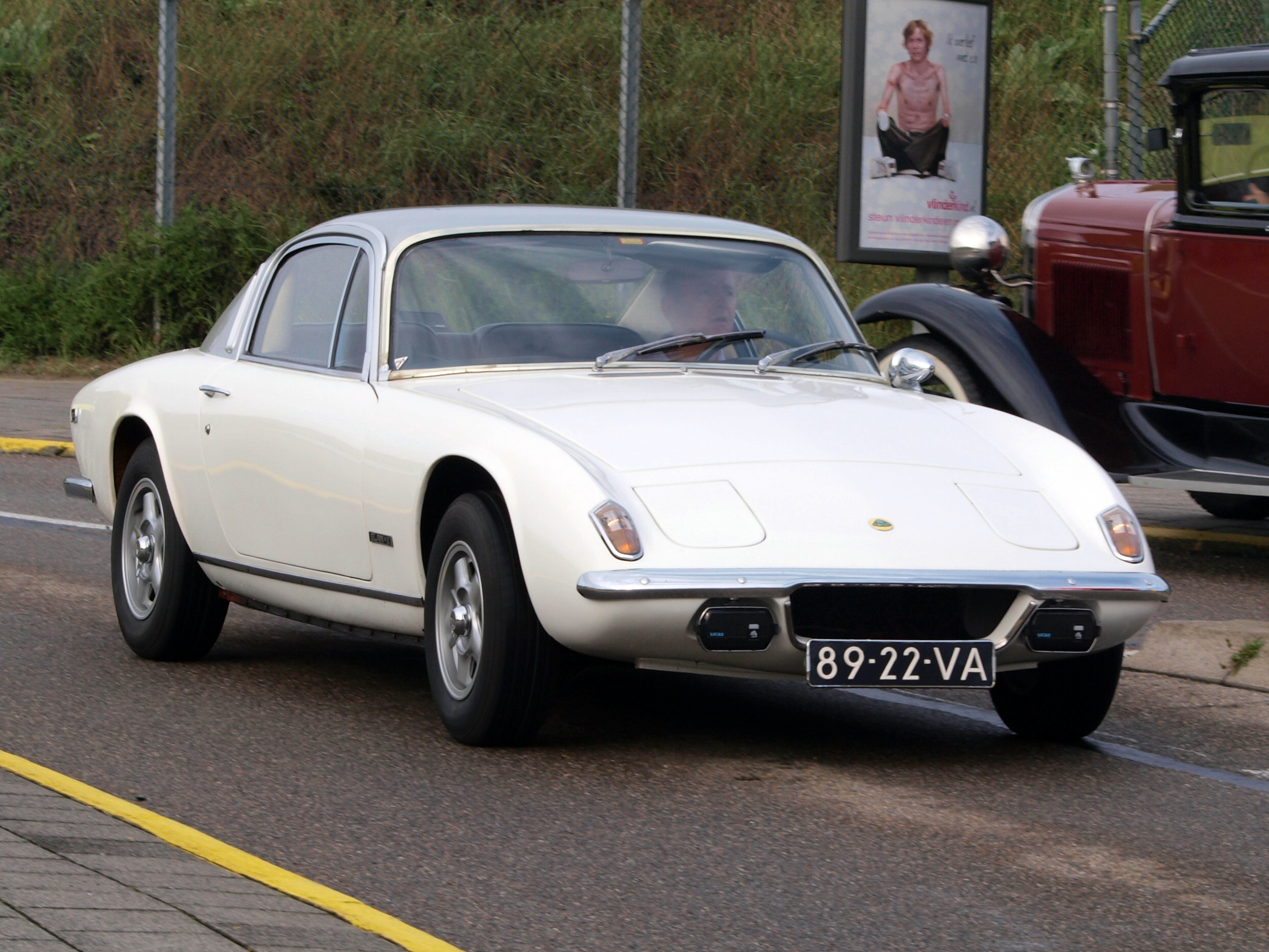 Photographed at the Nationaal Oldtimer Festival Zandvoort 2010, The Netherlands.